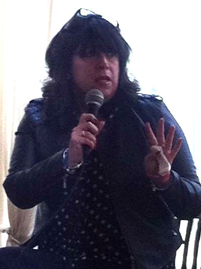 E. L. James, the author of Fifty Shades of Grey""